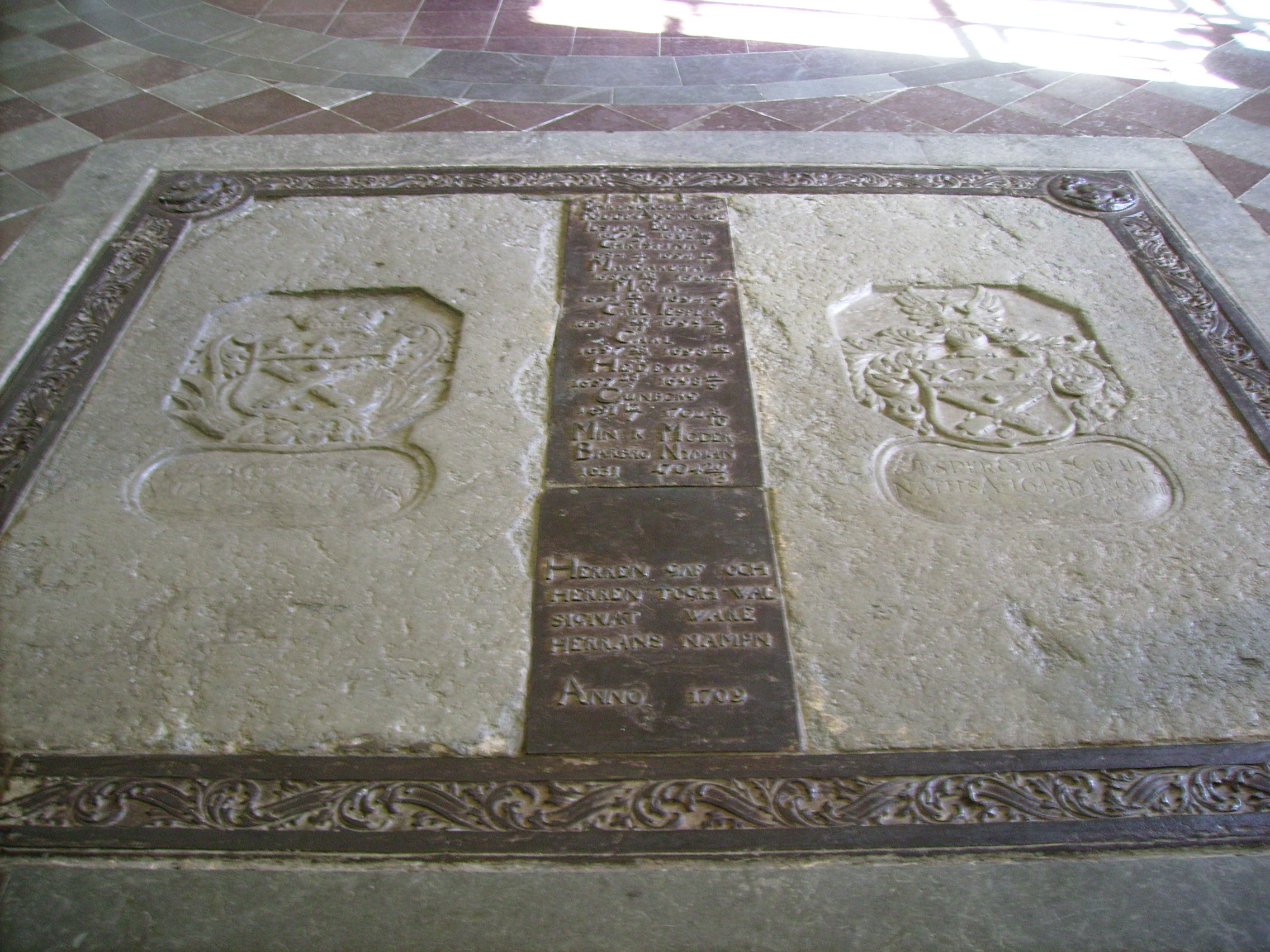 Picture of Ehrencreutz family grave at Frustuna church.